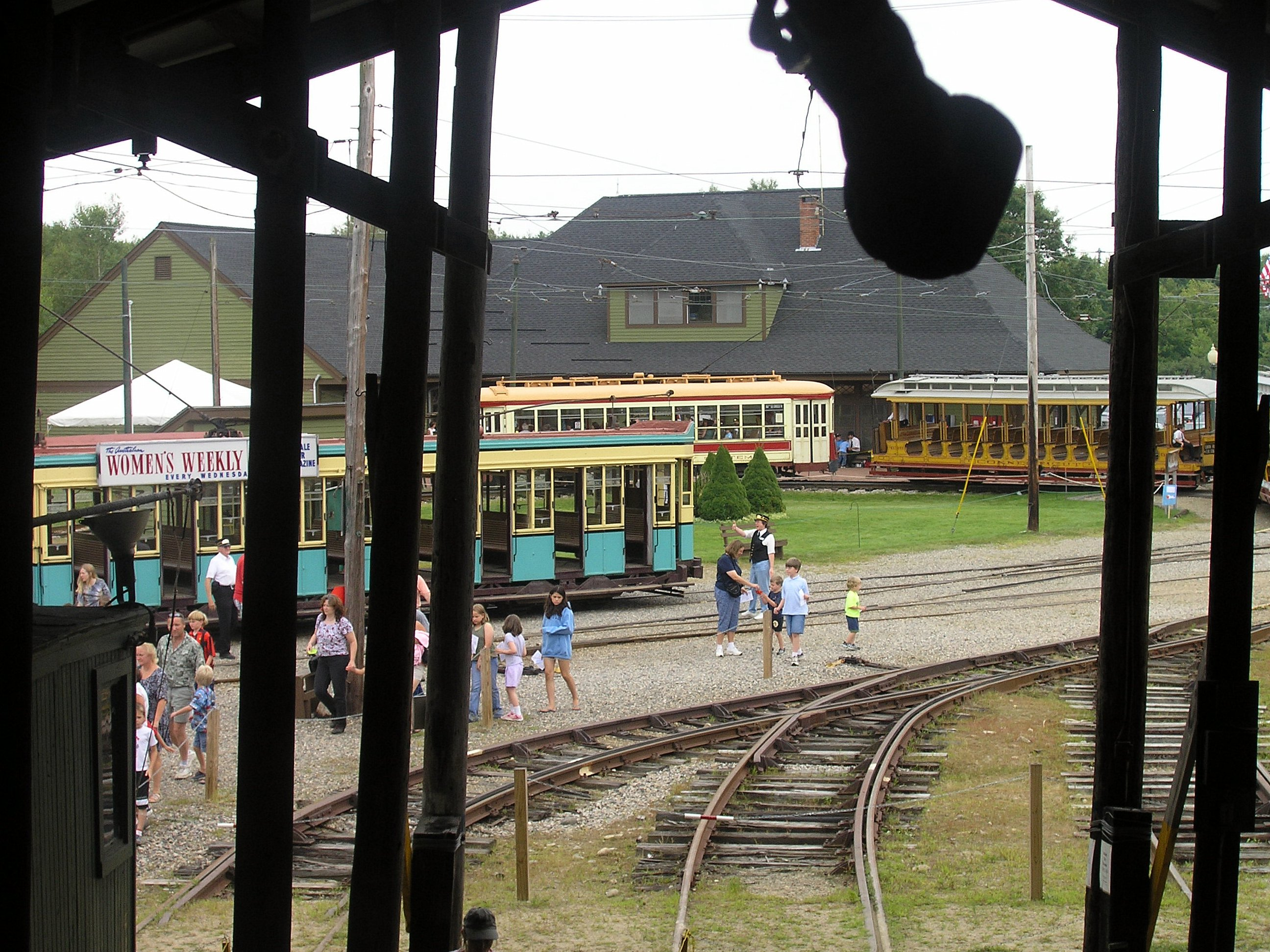 The main building and several trolleys at Seashore Trolley Museum in August 2006